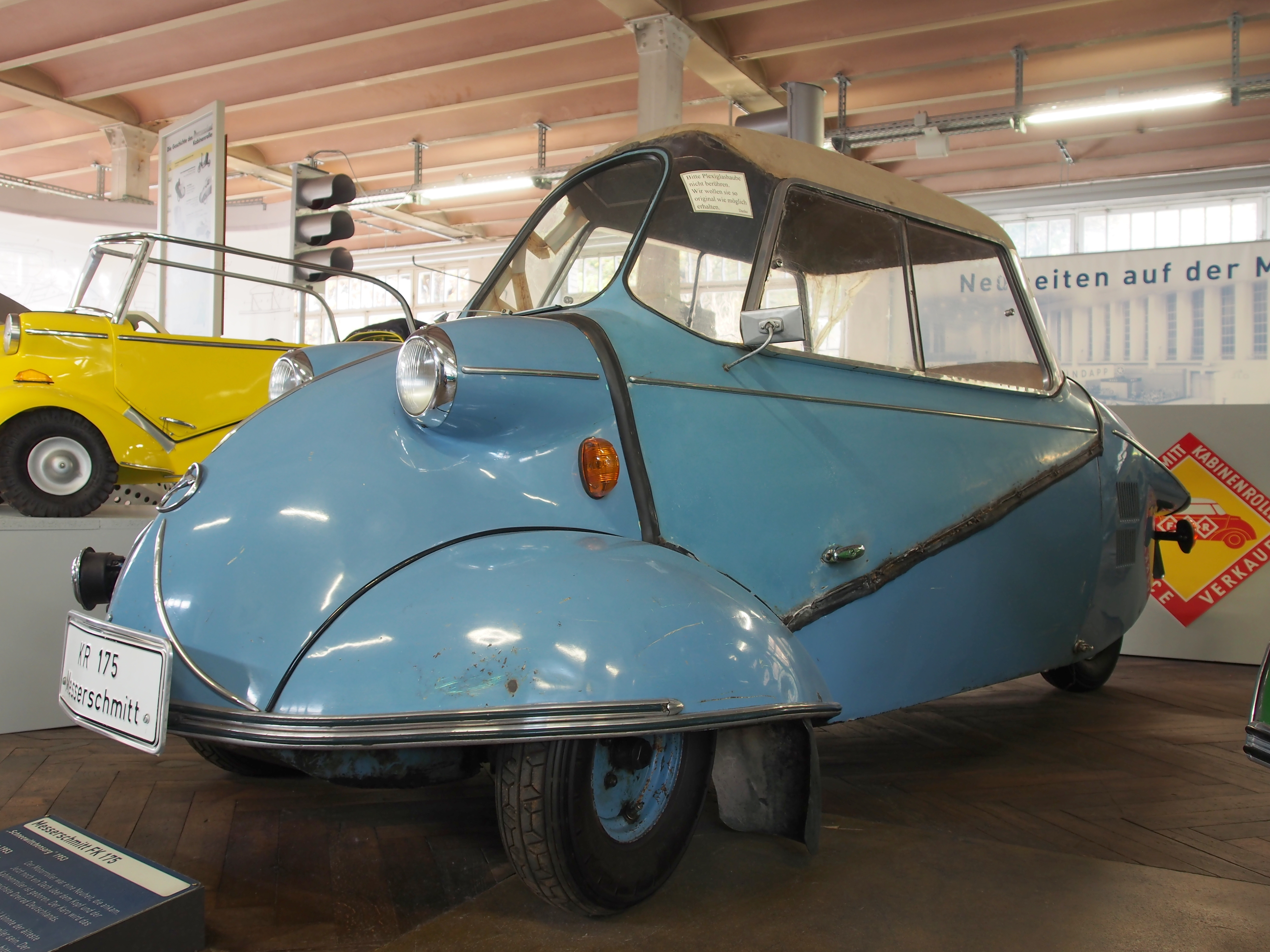 1953 Messerschmitt KR 175 / FK 175, 174cc, 9.5 hp, 90 km/h.